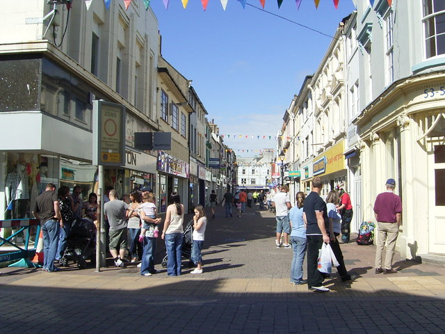 King Street, near to Whitehaven, Cumbria, Great Britain.